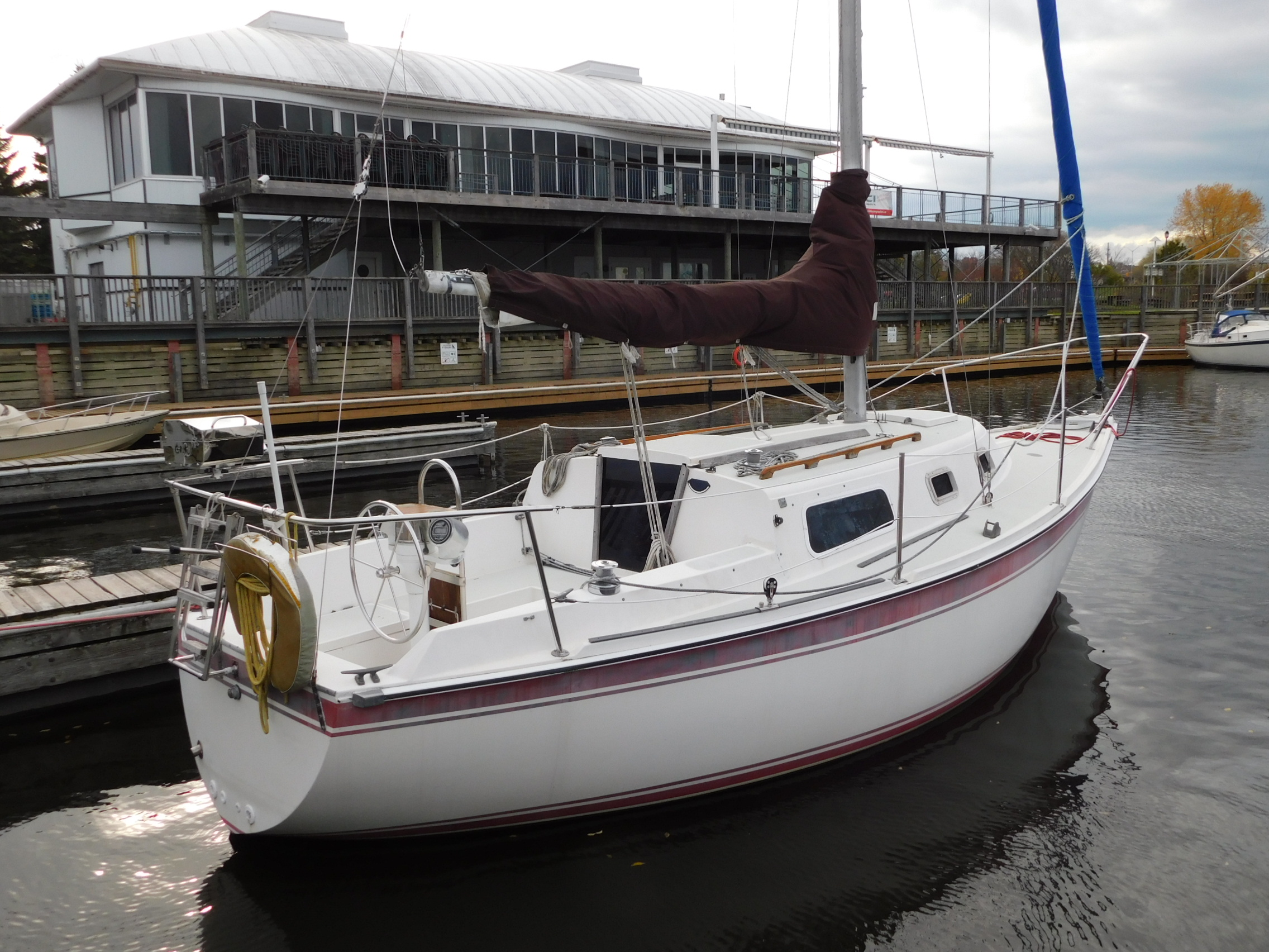 A Cal 2-27 sailboat named Baby Cal.